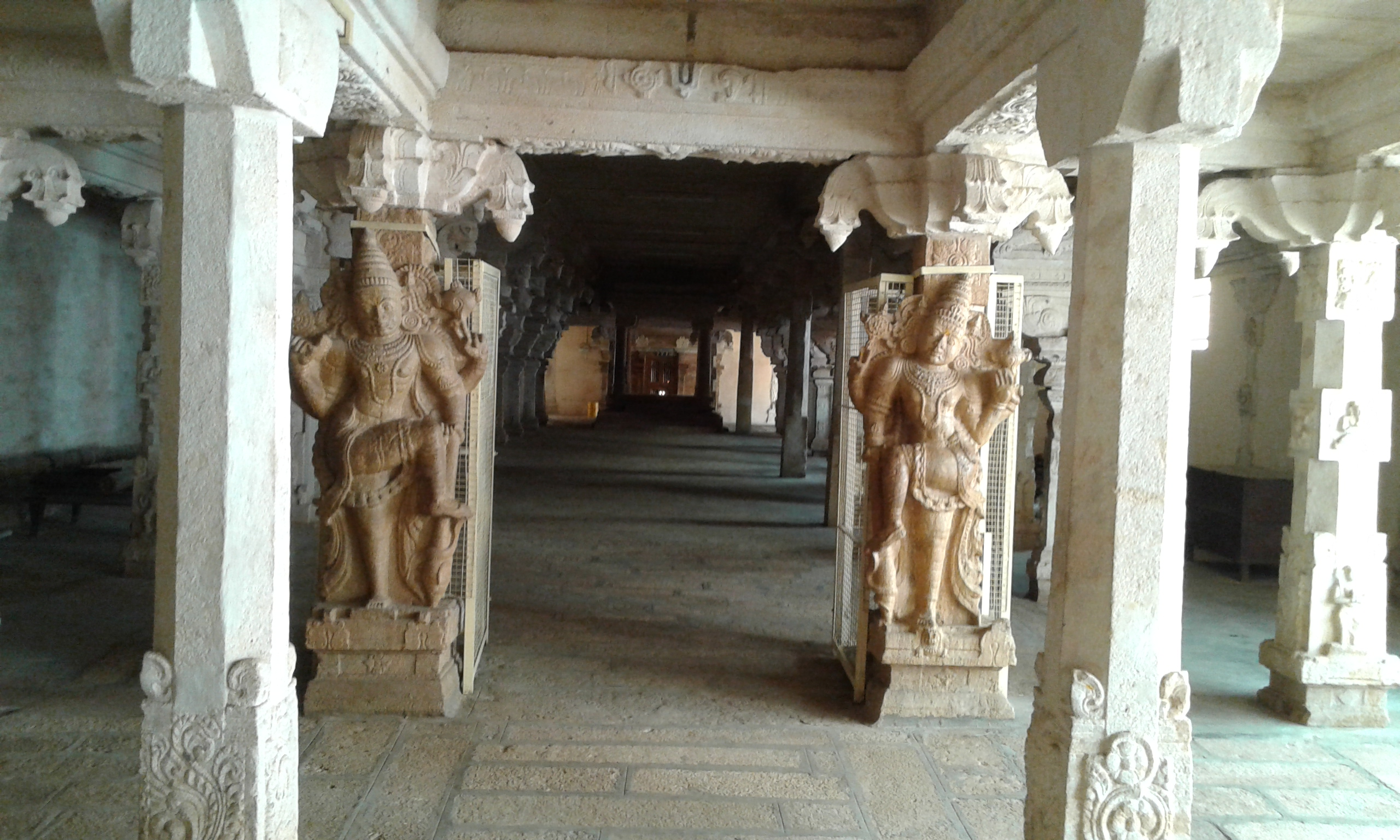 Then Thirupperai